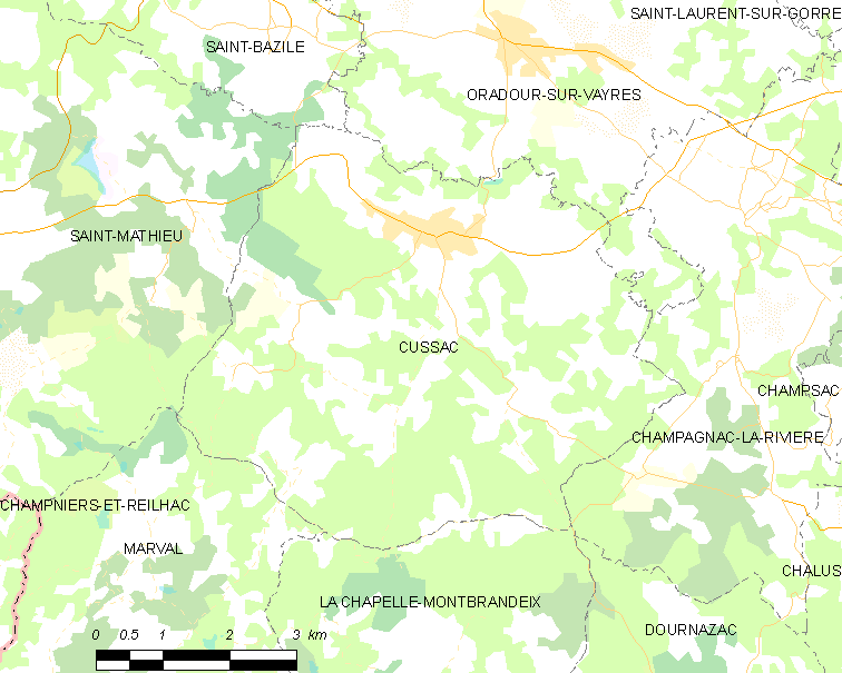 Map of French municipality Cussac